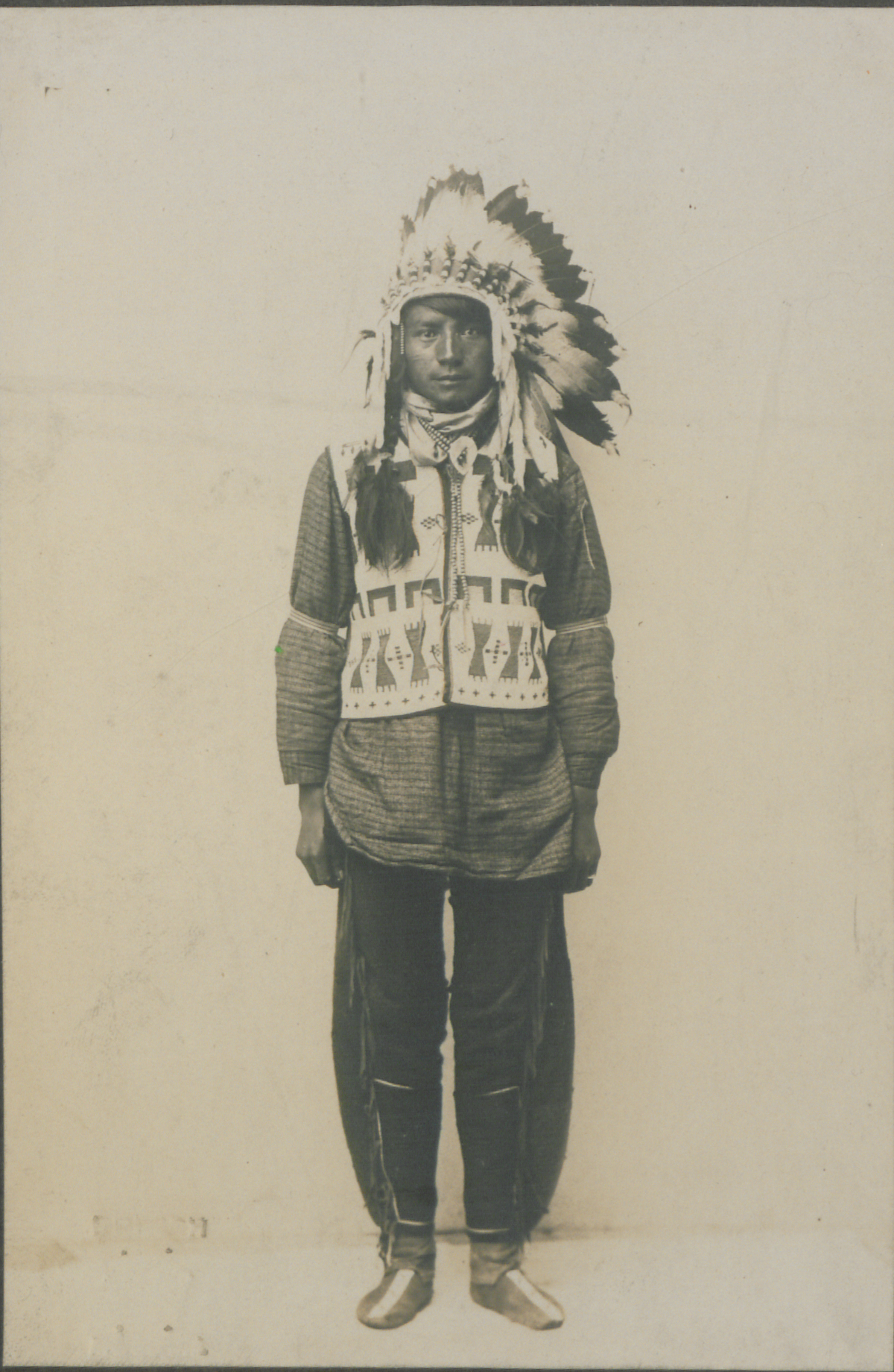 Jacob Swampy.